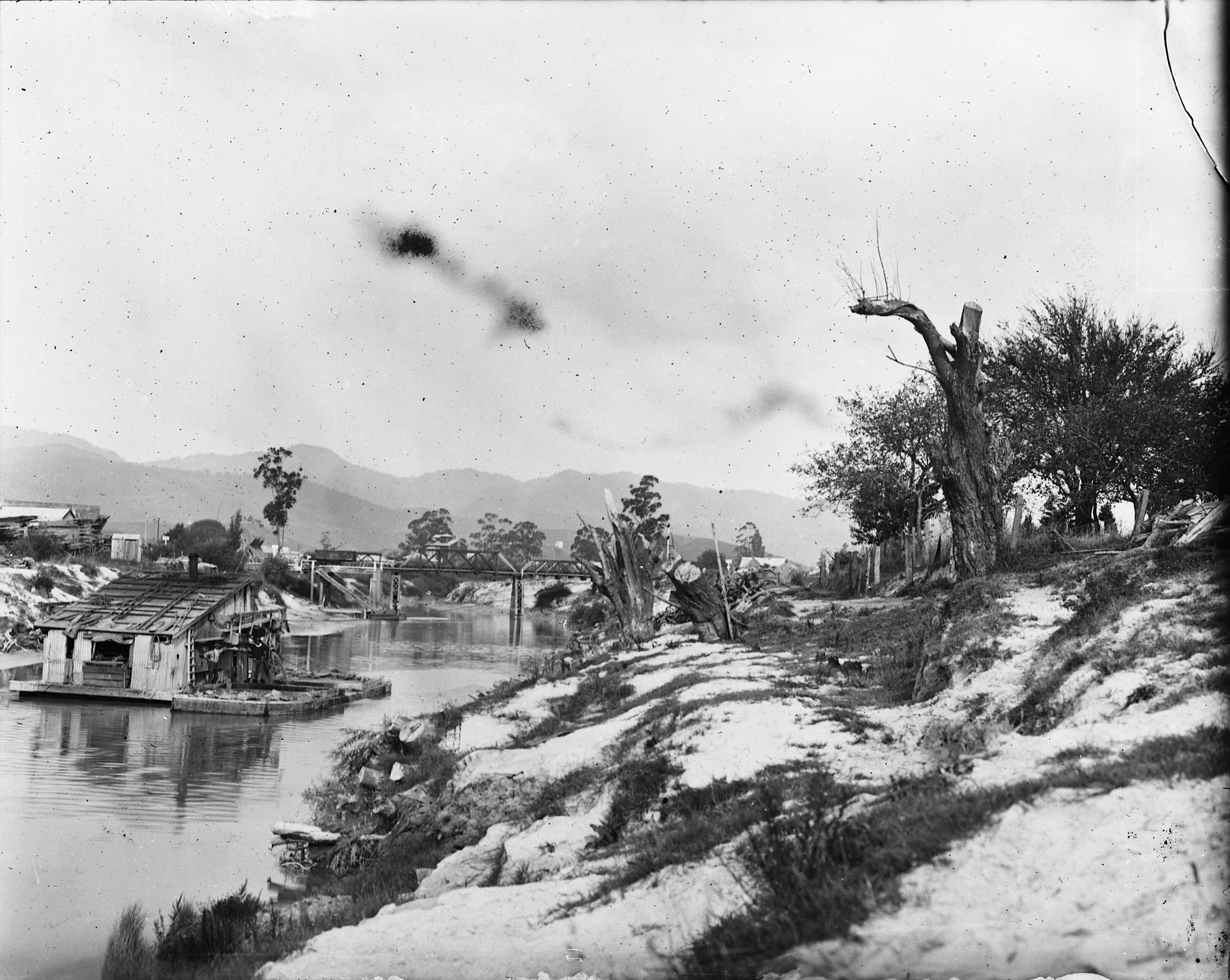 Scene alongside the Ohinemuri River, near Paeroa, with a goldmining dredge. Photograph taken by Albert Percy Godber, circa 1916.